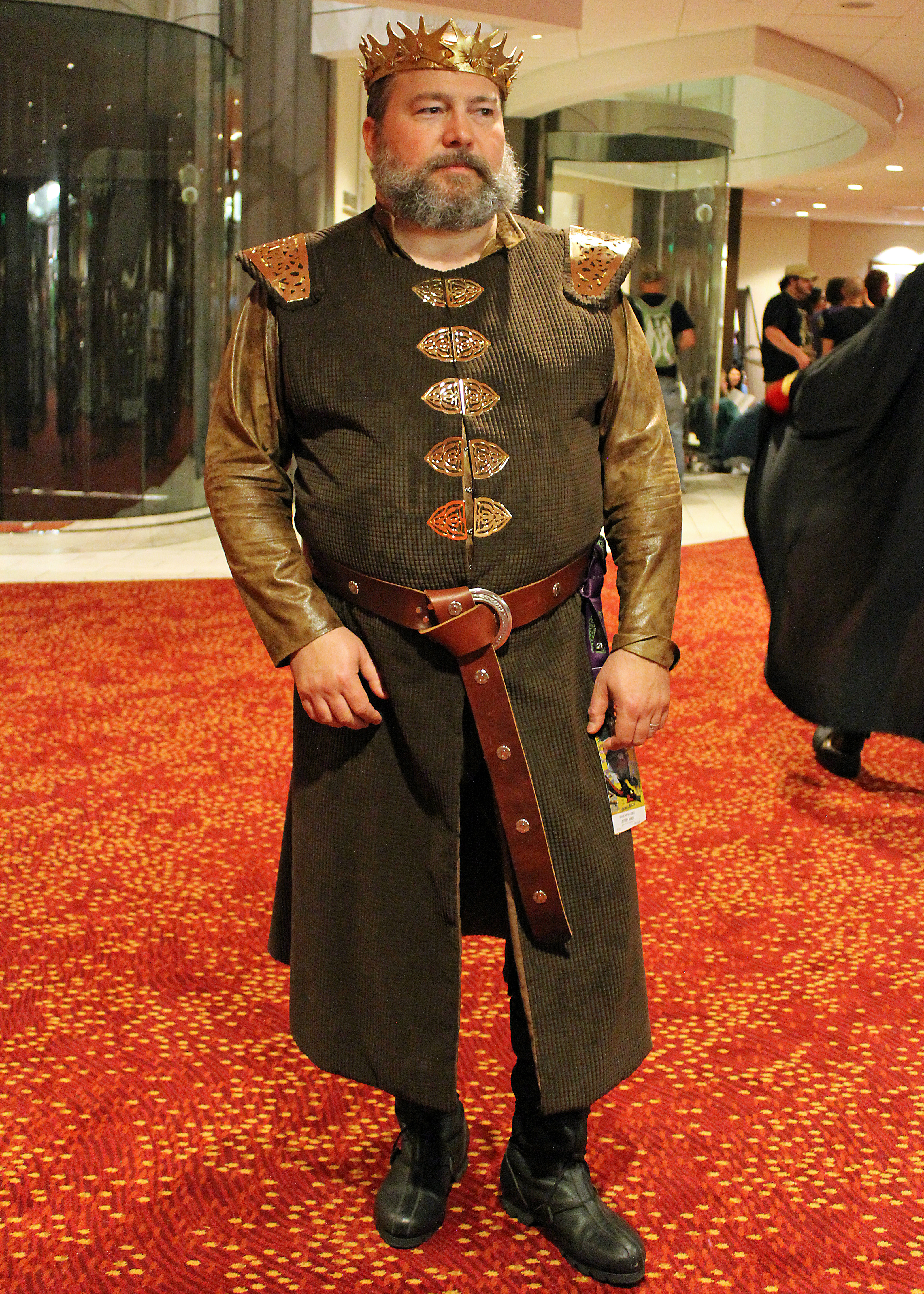 King Robert Cosplay at Dragon Con 2014.